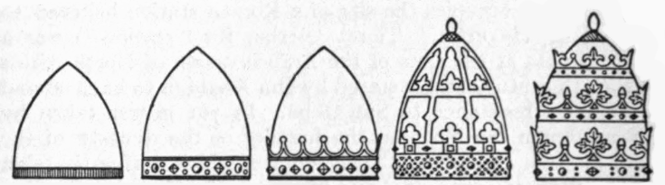 Papal tiaras